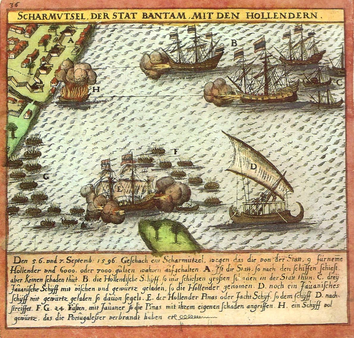 Bombardment of Bantam (Java) by the Dutch fleet, September of 1596, to force the release of arrested captain Cornelis de Houtman